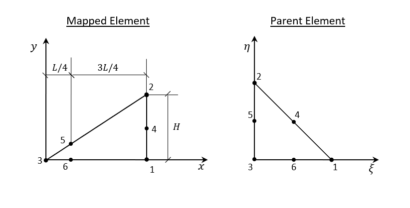 dfadf